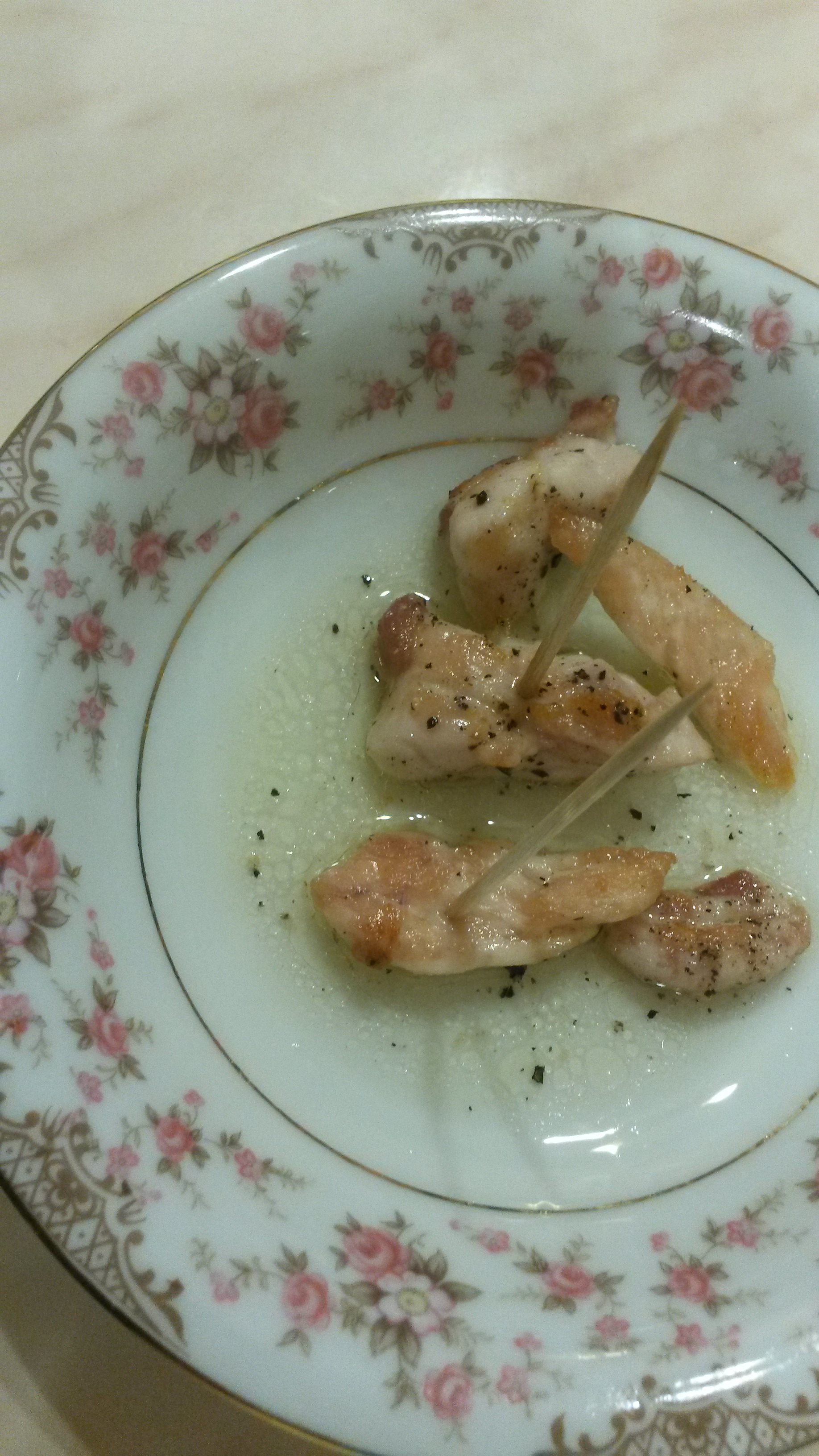 Chicken oysters with sesame oil and seeds